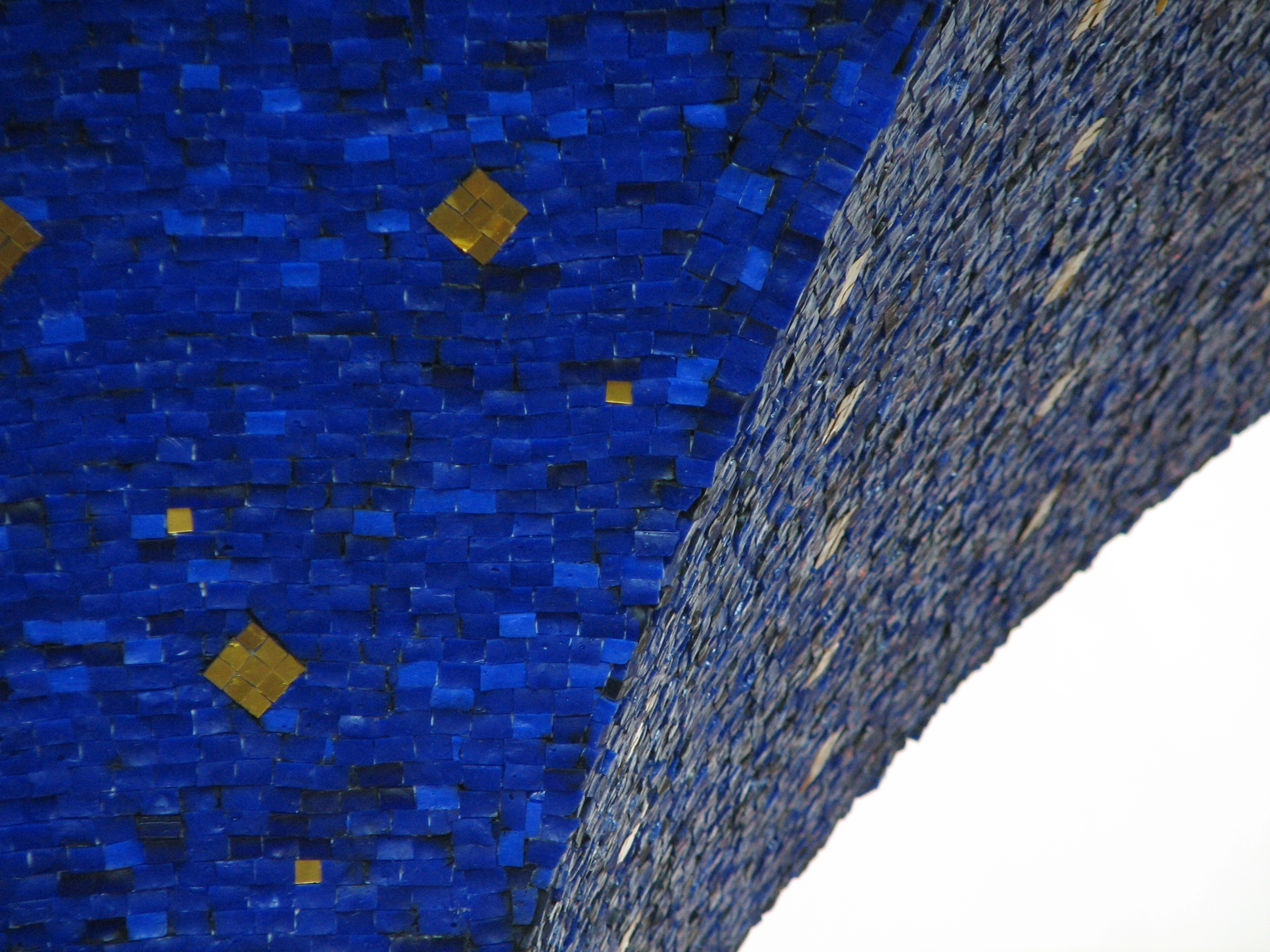 The mosaic surfaced capital of the smaller "Mut" sculpture by Roland Anderson, placed outside Burgårdens utbildningscentrum in Göteborg, Sweden.